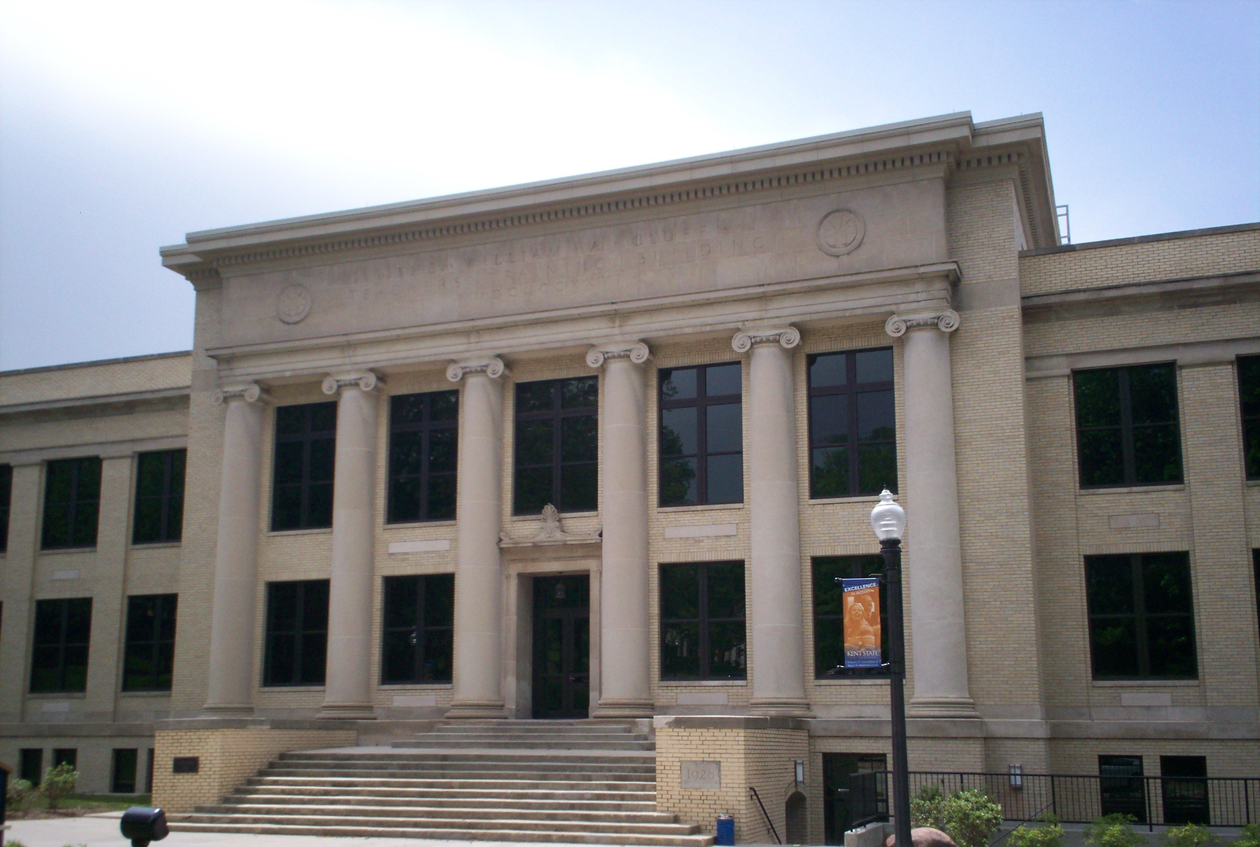 Franklin Hall, one of the oldest buildings on the campus of Kent State University in Kent, Ohio. Built in 1926, it was originally known as the "William A. Cluff Teachers Training Building" after trustee William Cluff. Later, it was renamed Franklin Hall in honor of the former name of the city of Kent, Franklin Mills. The building housed the University School until 1956 and later would house various departments, including the College of Business, before being renovated in 2007–08 to serve as home of the School of Journalism and Mass Communication. The inscription on the top still reads "The William A. Cluff Teachers Training Building MDCCCCXXVI"